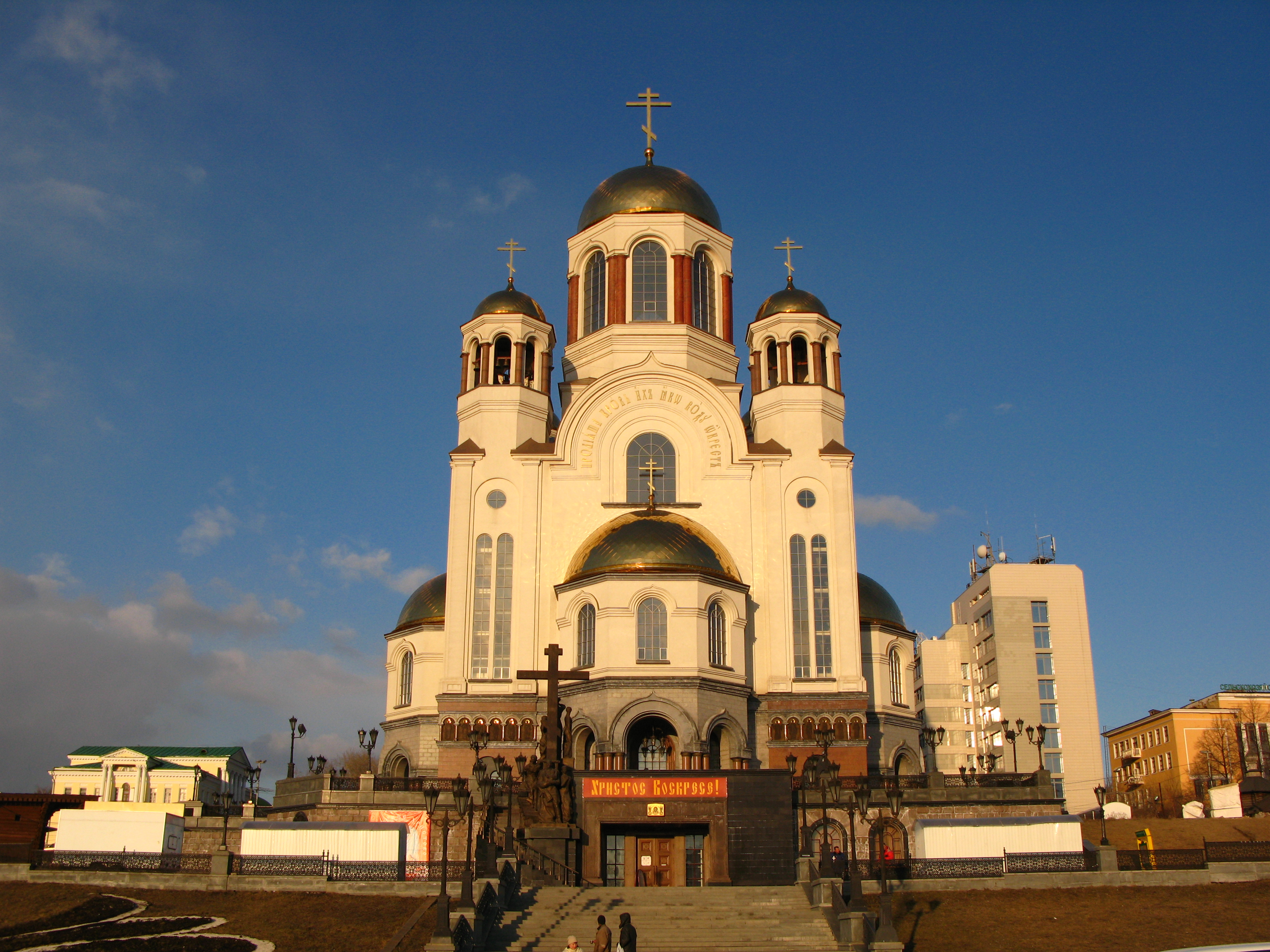 Church on blood.